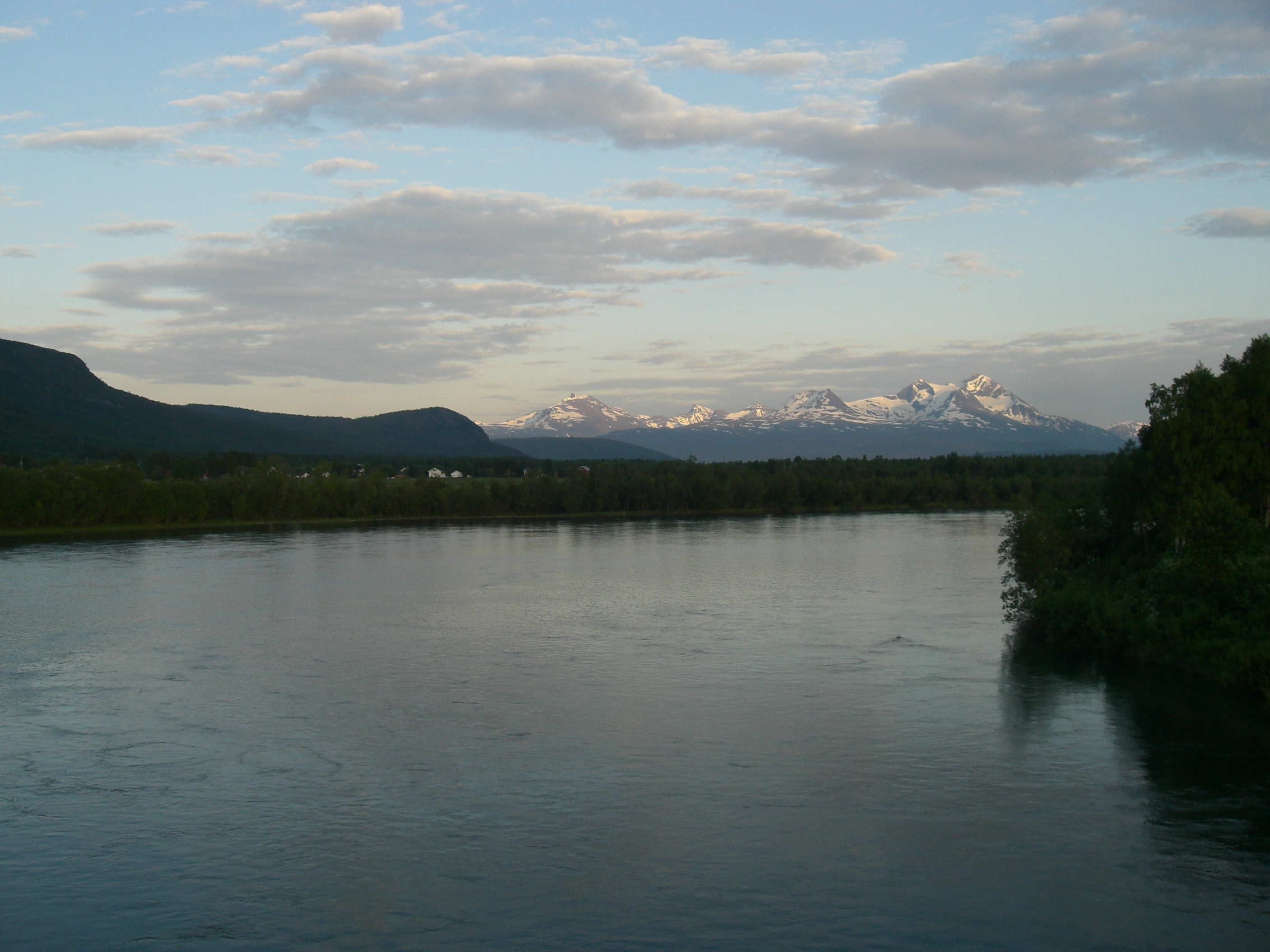 Målselva river valley near Målselva fjord. Bridge in Bardu. Troms, Norway